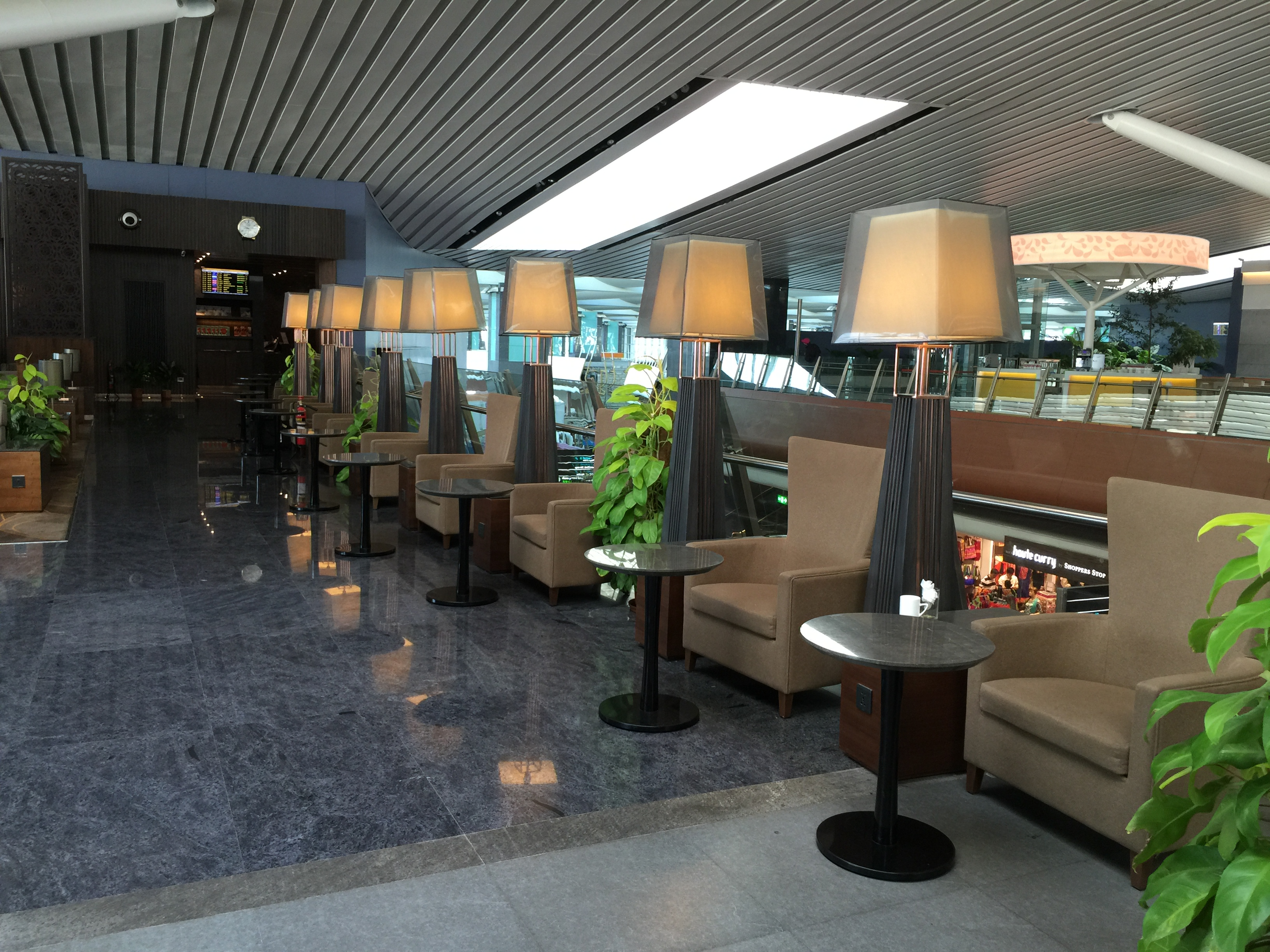 Plaza Premium Lounge at Kempegowda Airport Bangalore, domestic side.